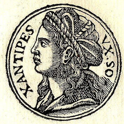 Xanthippe was the wife of Socrates and mother of their three sons Lamprocles, Sophroniscus, and Menexenus.